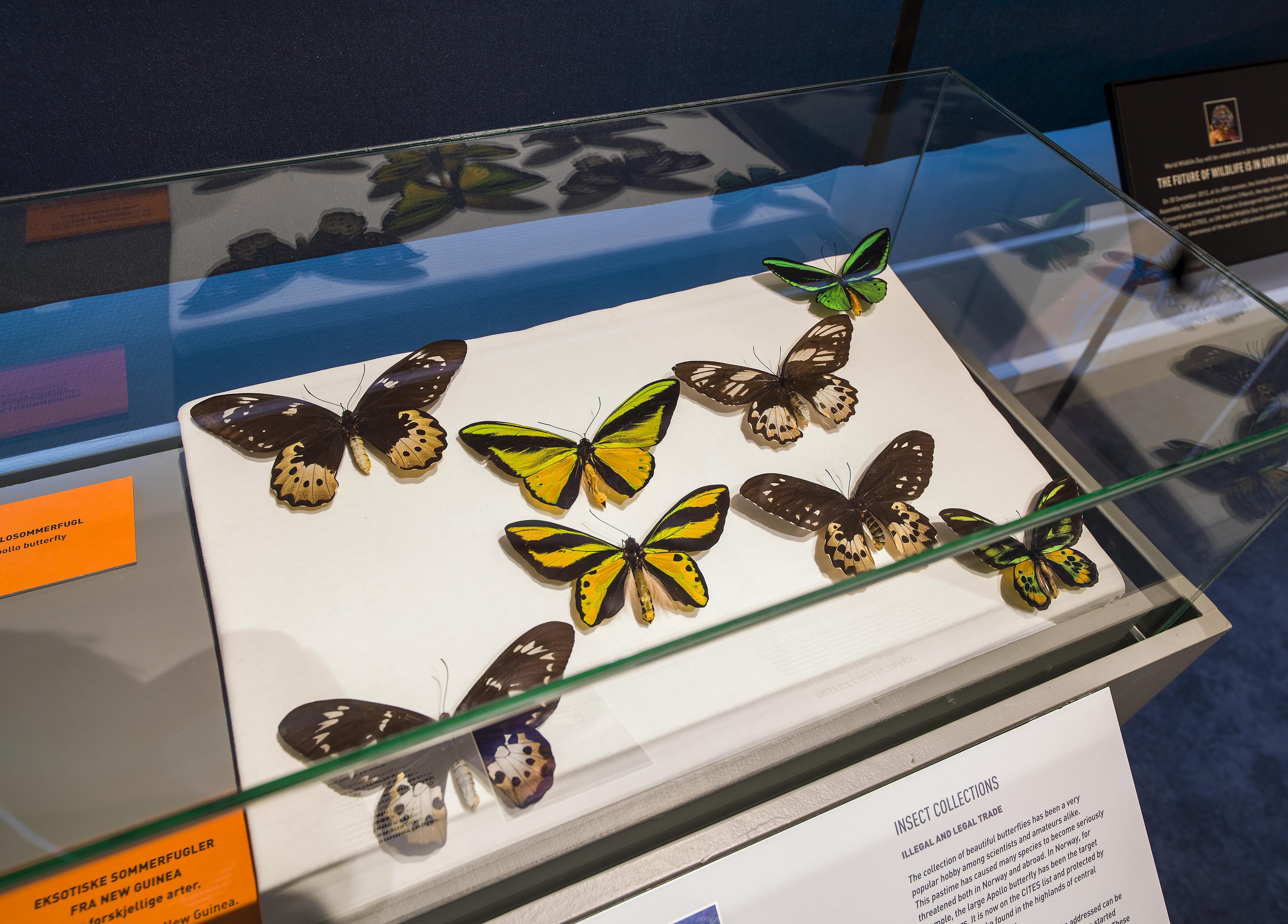 From the exhibition "Deadly trade" at NTNU University Museum (NTNU Vitenskapsmuseet). The exhibition showed the consequences of illegal trade. Here: For butterfly collectors